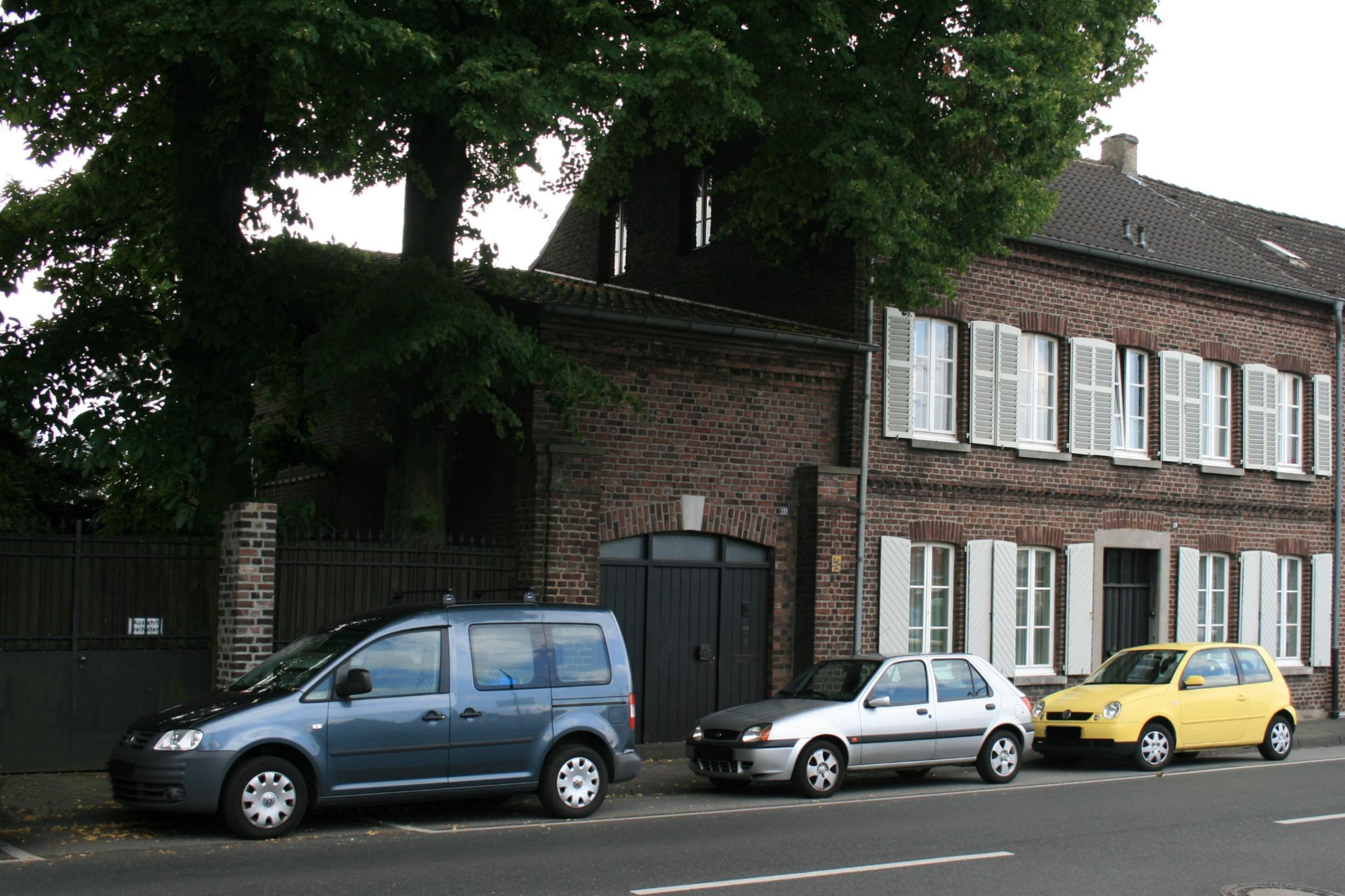 Cultural heritage monument No. B 007 in Mönchengladbach